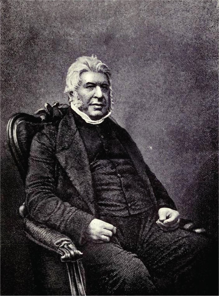 Walter Farquhar Hook, (March 13, 1798 – October 20, 1875), eminent Victorian churchman and sometime vicar of Leeds.